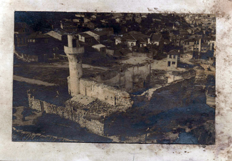 The Odalar Mosque in Istanbul after the fire of 1919 seen from the air